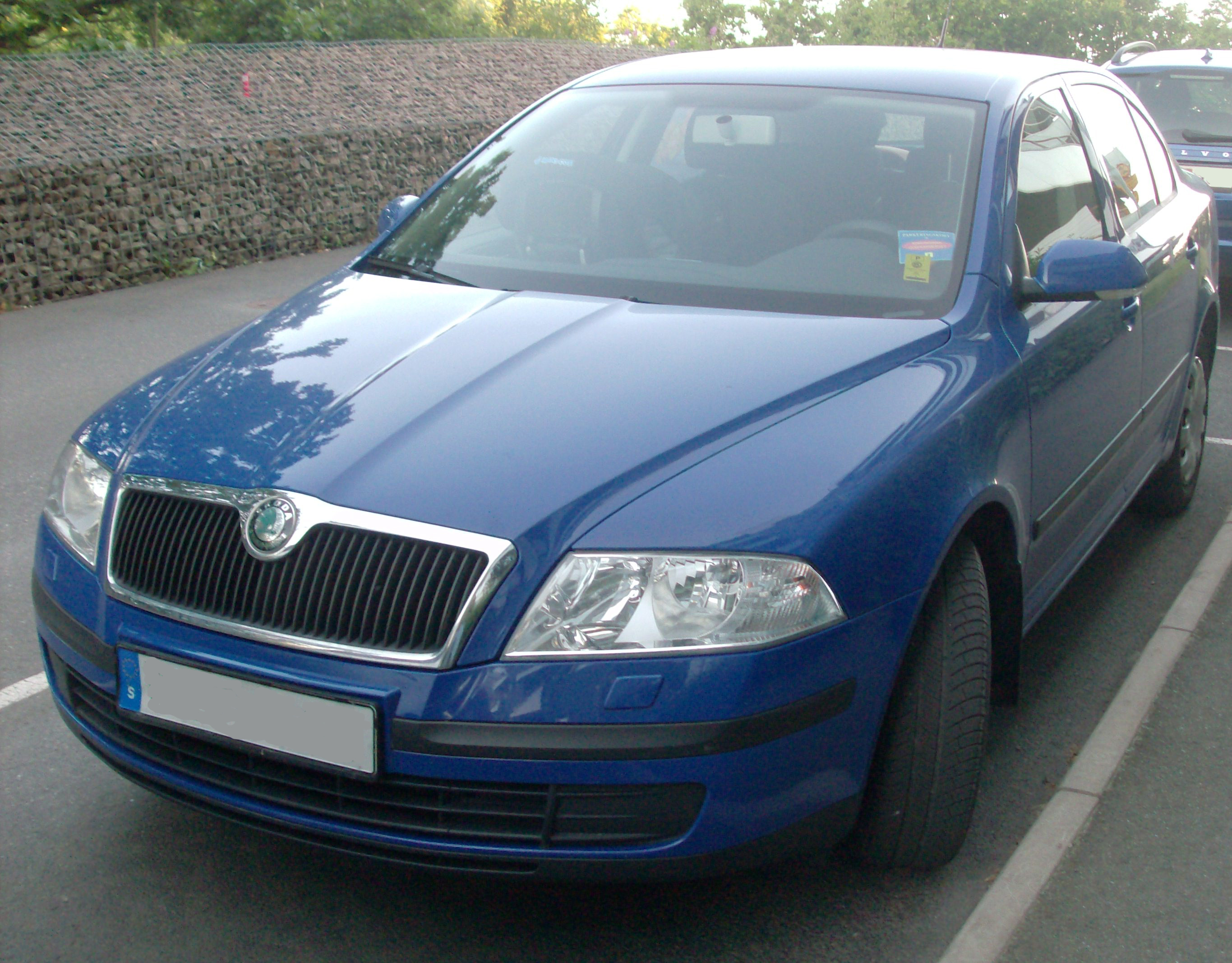 Skoda Octavia MPI photographed in Gothenburg, Sweden.